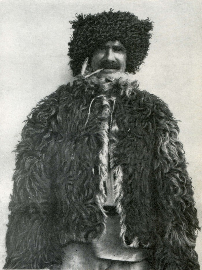 Hucul